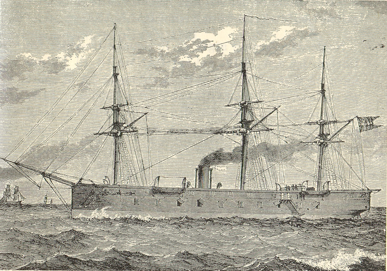 The Danish armoured frigate Danmark. Ordered in Glasgow by the Confederate Navy, but eventually delivered to Denmark in 1864.